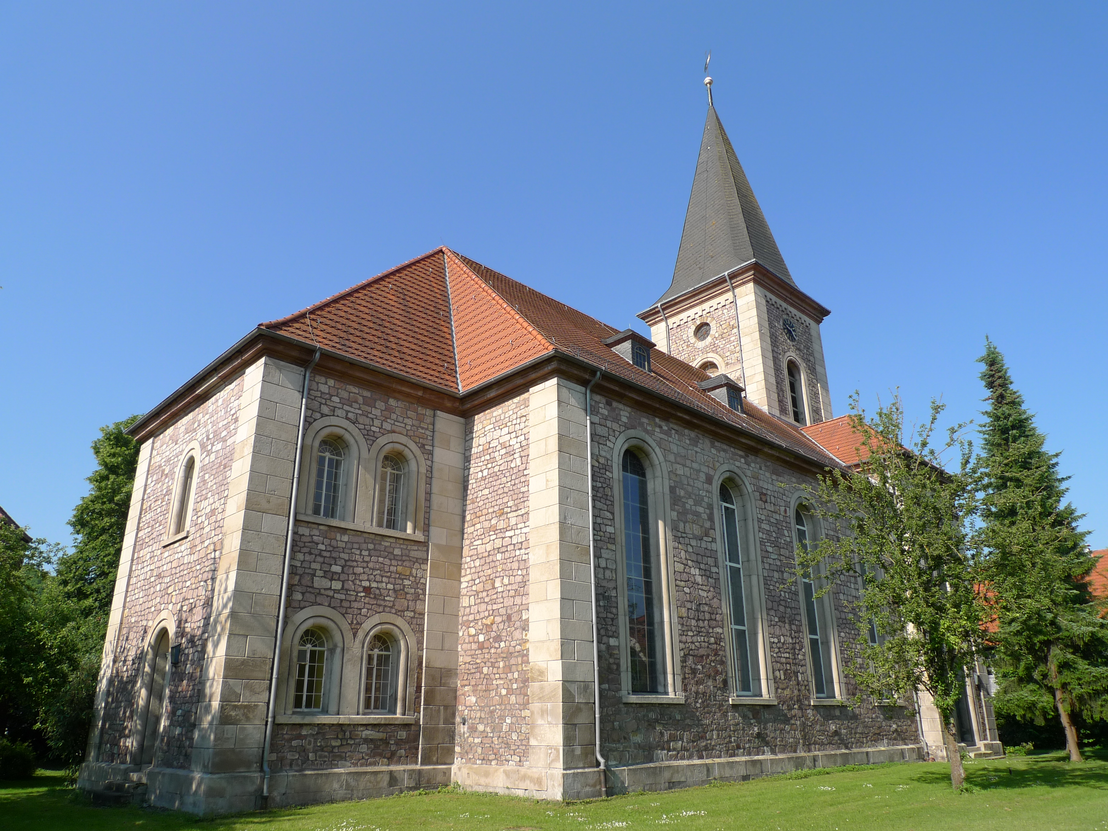 Ev. Luth. St.-Thomas-Kirche in Scharzfeld (Ortsteil von Herzberg am Harz)